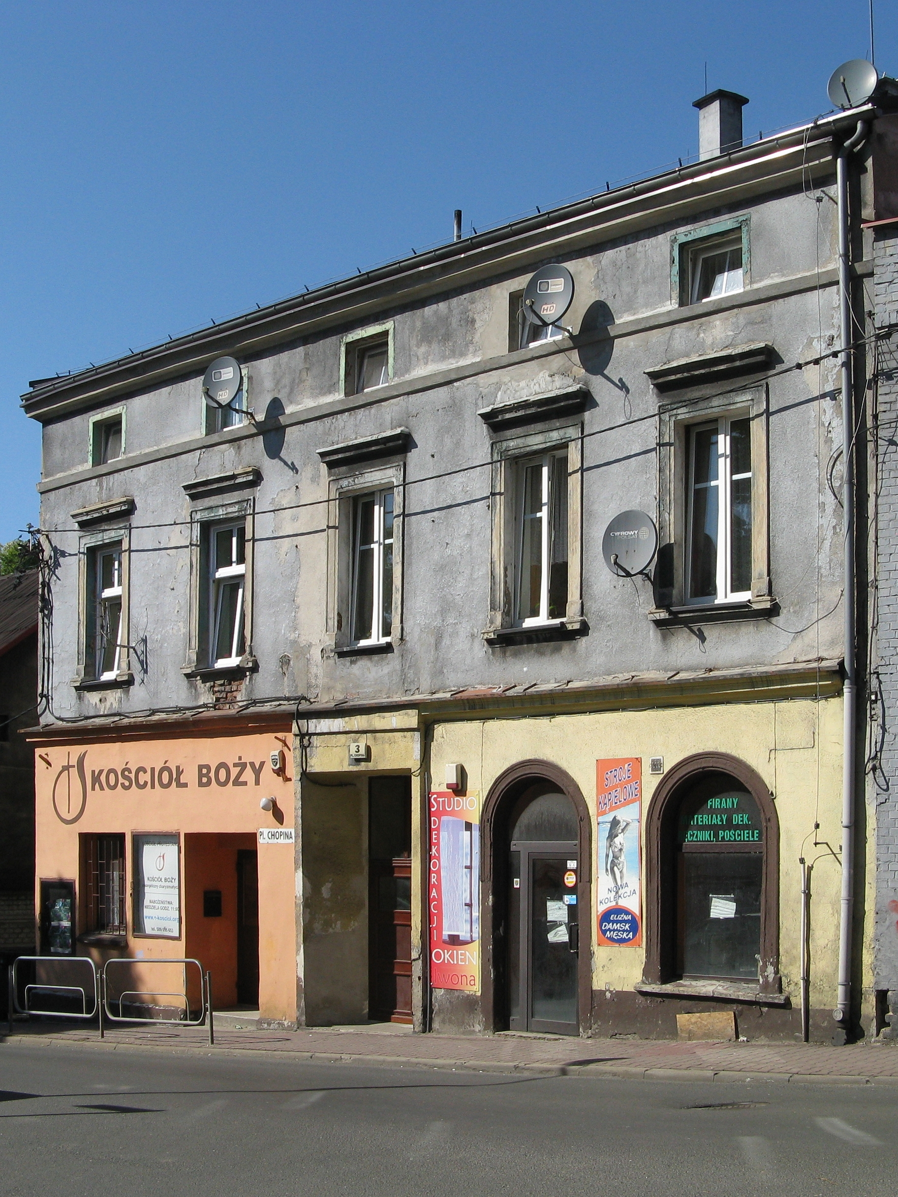 The Church of God church in Ruda Śląska, Poland.